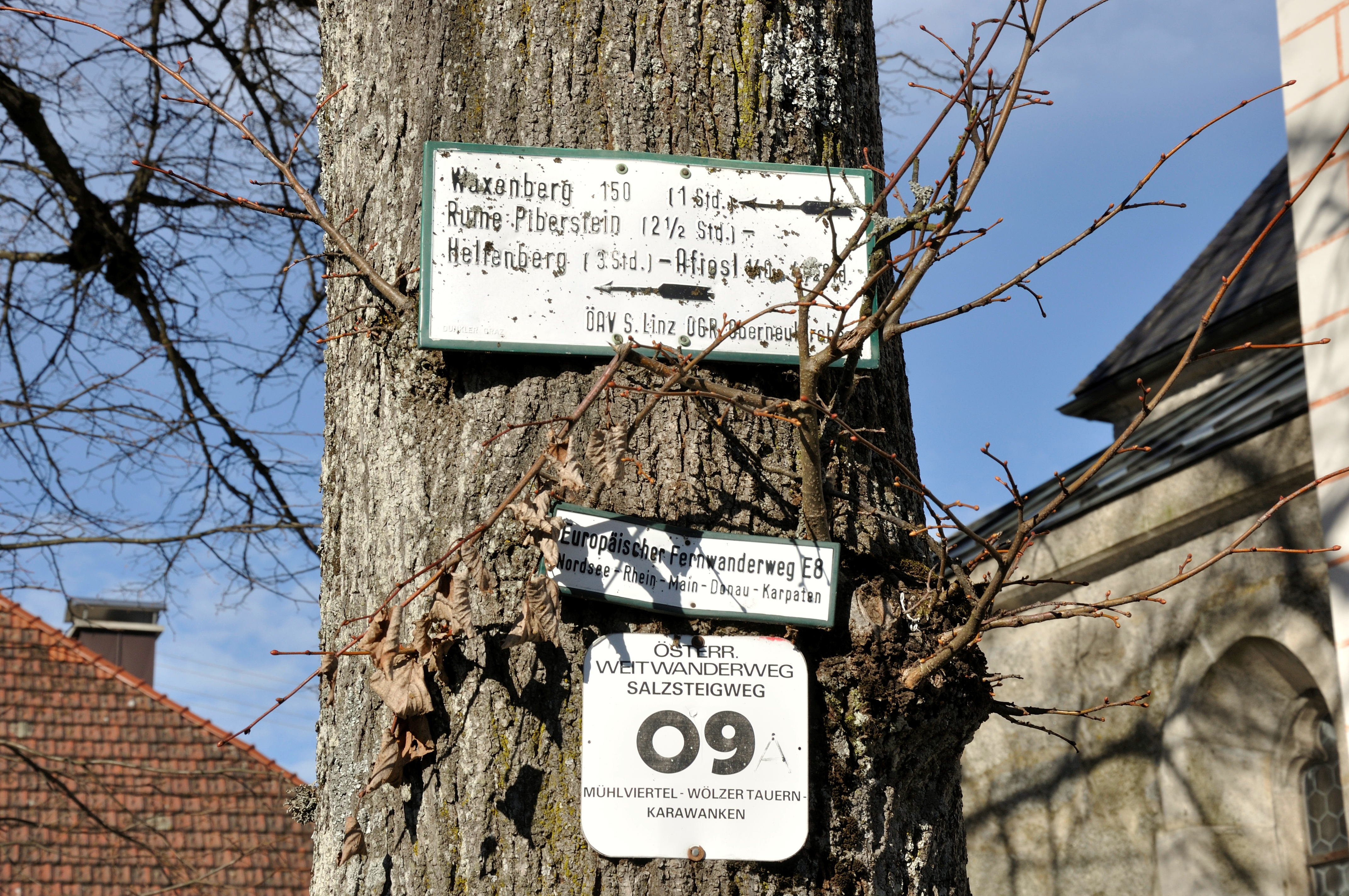 Attached at a lime-tree beneath the parish church one can find hiking and footpath signs of trails which are going through Oberneukirchen (Mühlviertel, Austria).